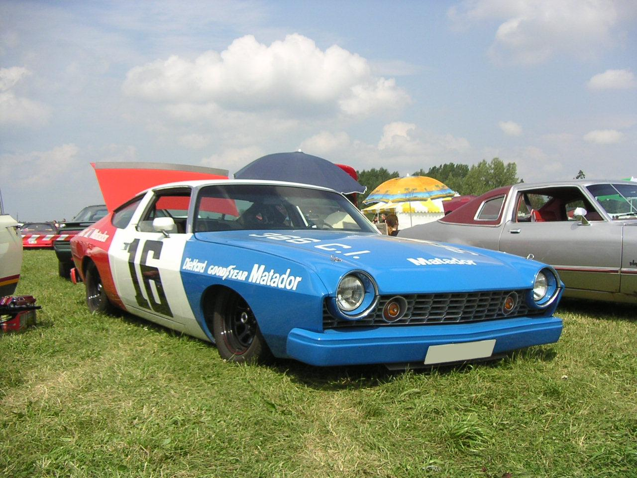 AMC Matador Coupé, built 1974–78. The grille indicates this car as a 1974–75 model. Picture taken at Power Big Meet 2006 in Västerås, Sweden.